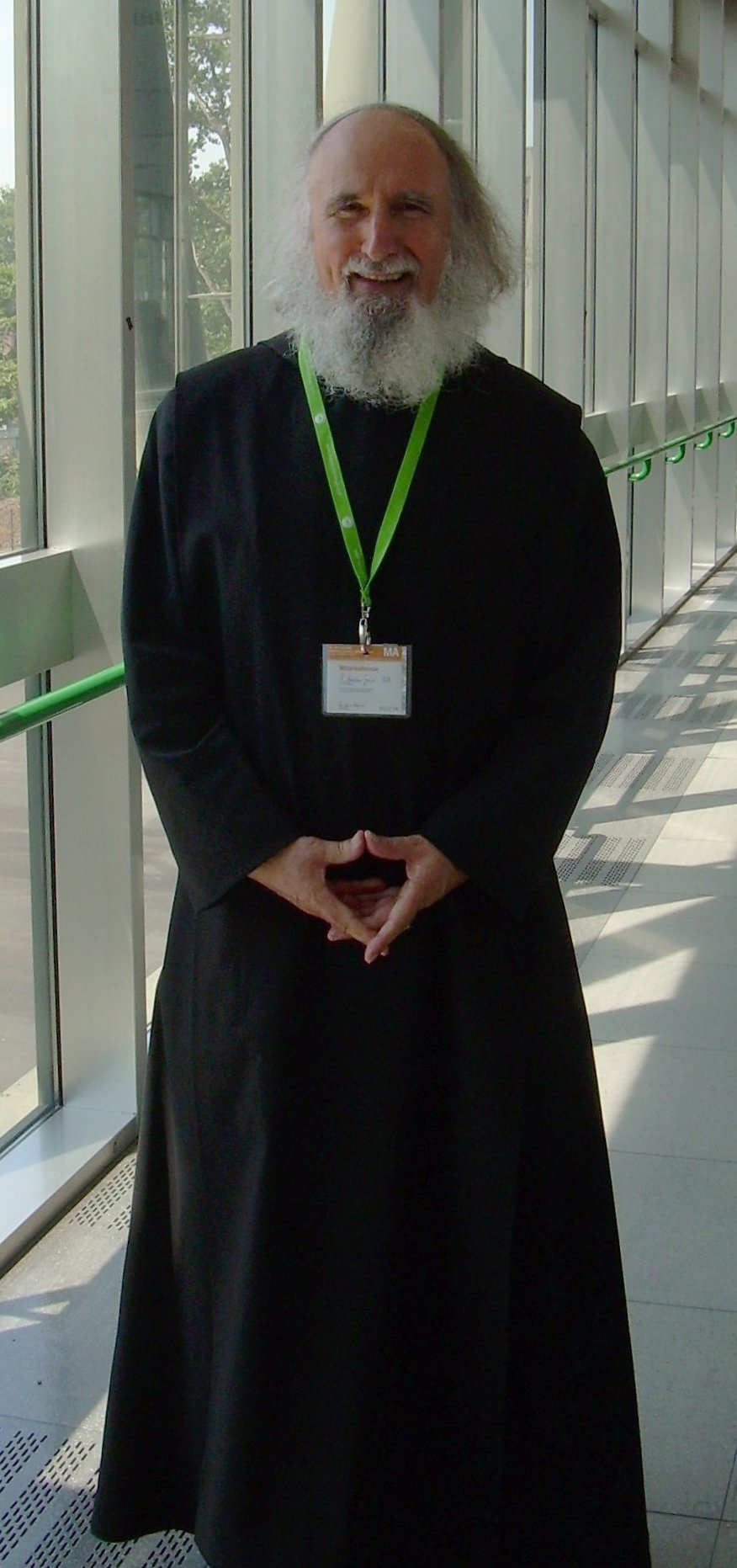 Anselm Grün in Cologne, 2007, showing Yoni: -gesture